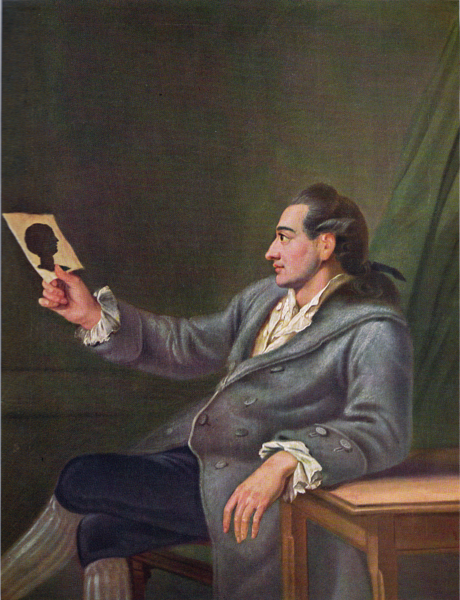 Young Johann Wolfgang Goethe in 1775/76, copy from 1778 for Goethe's parents